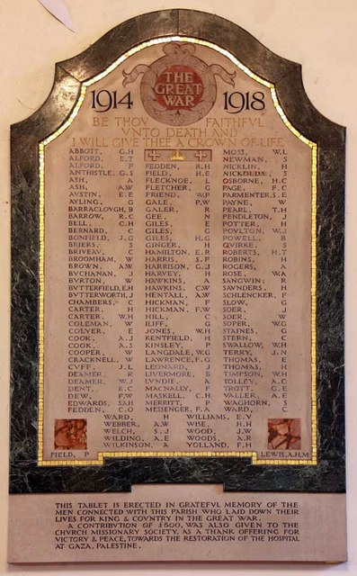 Christ Church, Barnet, Herts - Memorial WWI